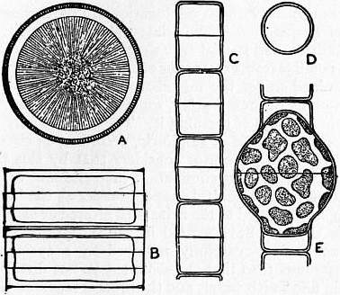 A and B, Melosira arenaria. C-E, Melosira varians. E, showing formation of auxospore.